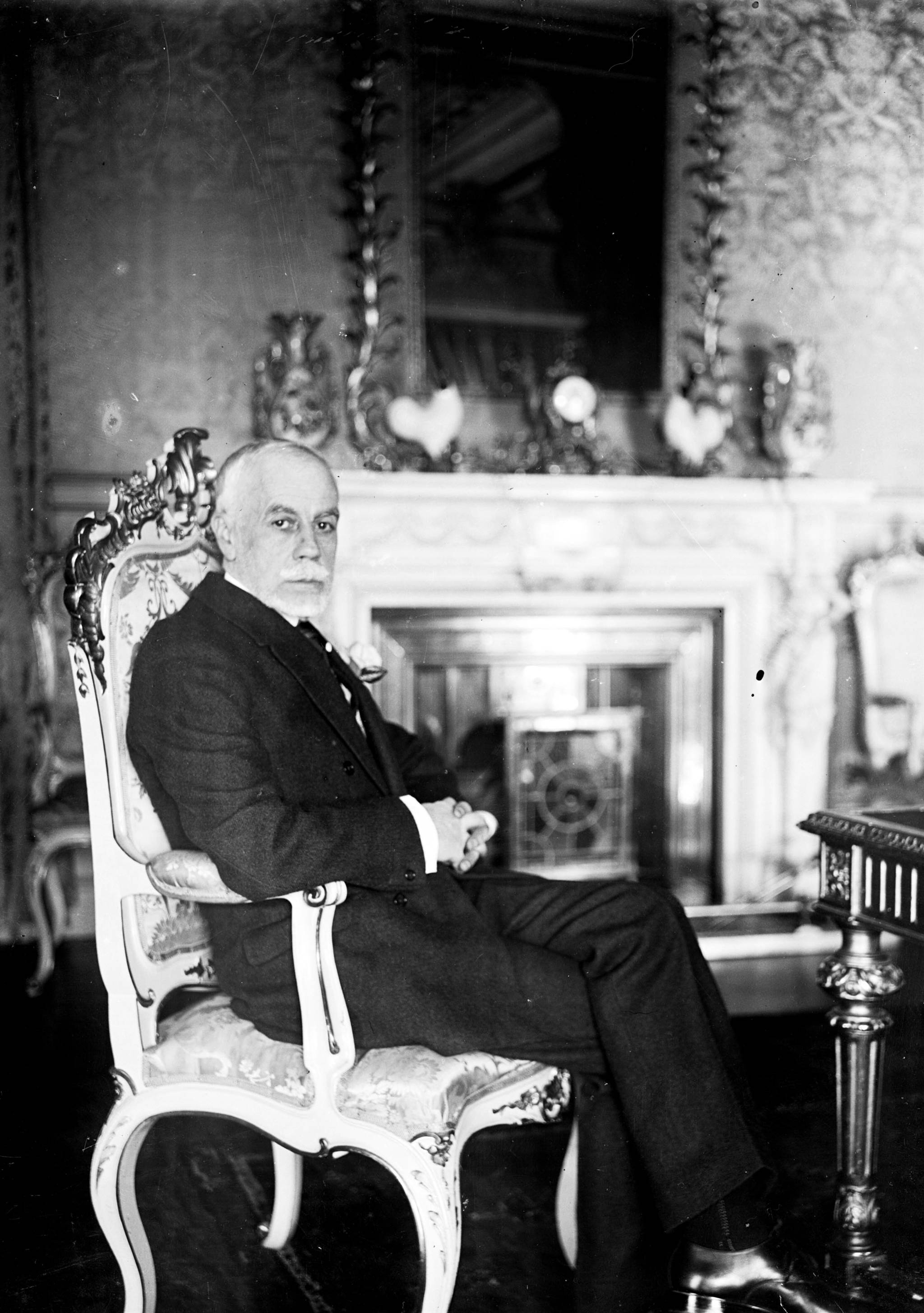 Manuel Teixeira Gomes, President of the Portuguese Republic 1923-1925.